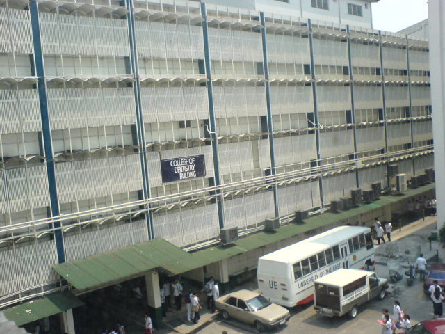 College of Dentistry at University of the East College of Dentistry University of the East, Metro Manila, Philippines